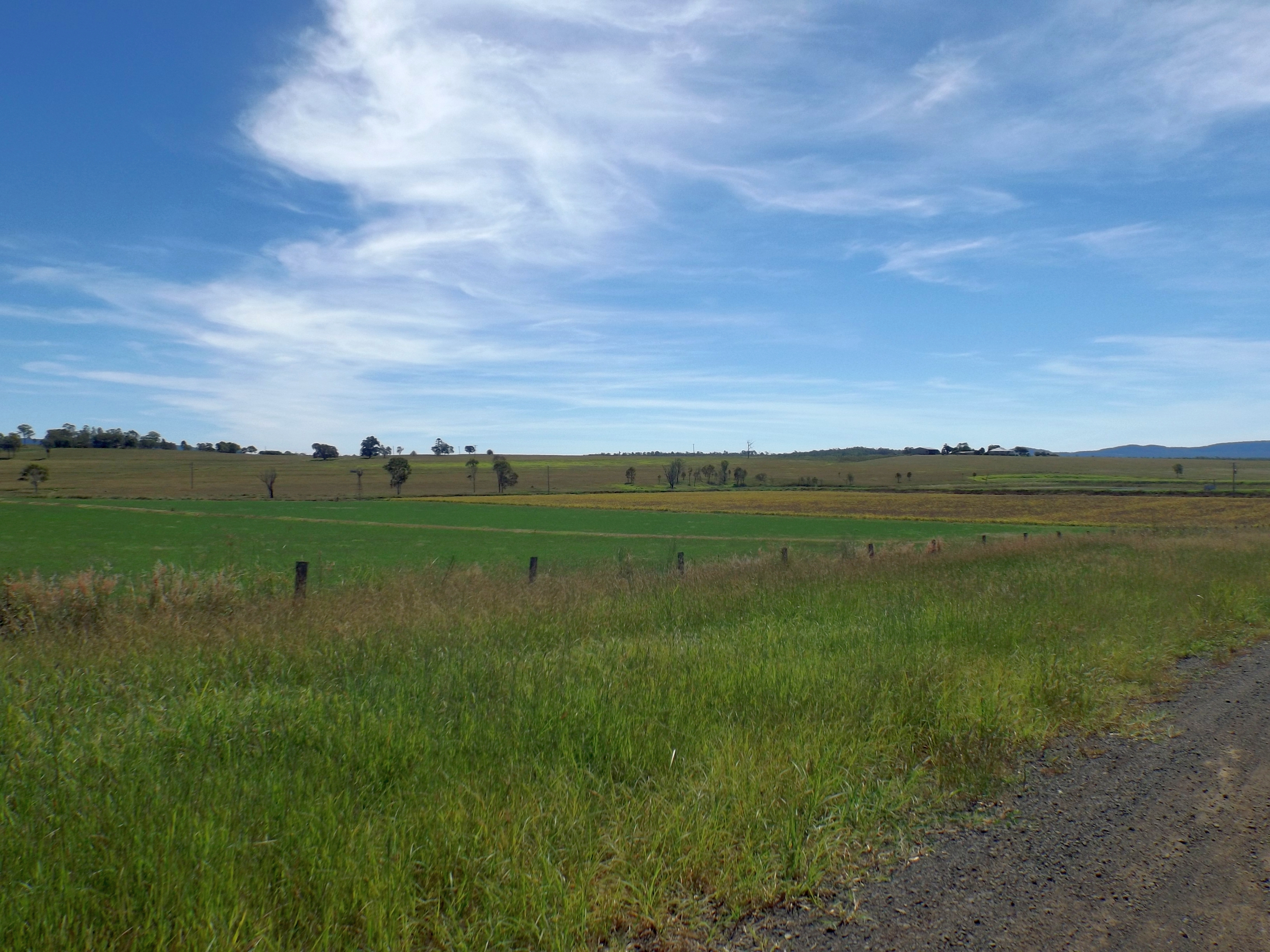 Photo of fields along Stokes Crossing Road Lower Mount Walker, Scenic Rim Region, Queensland, Australia.